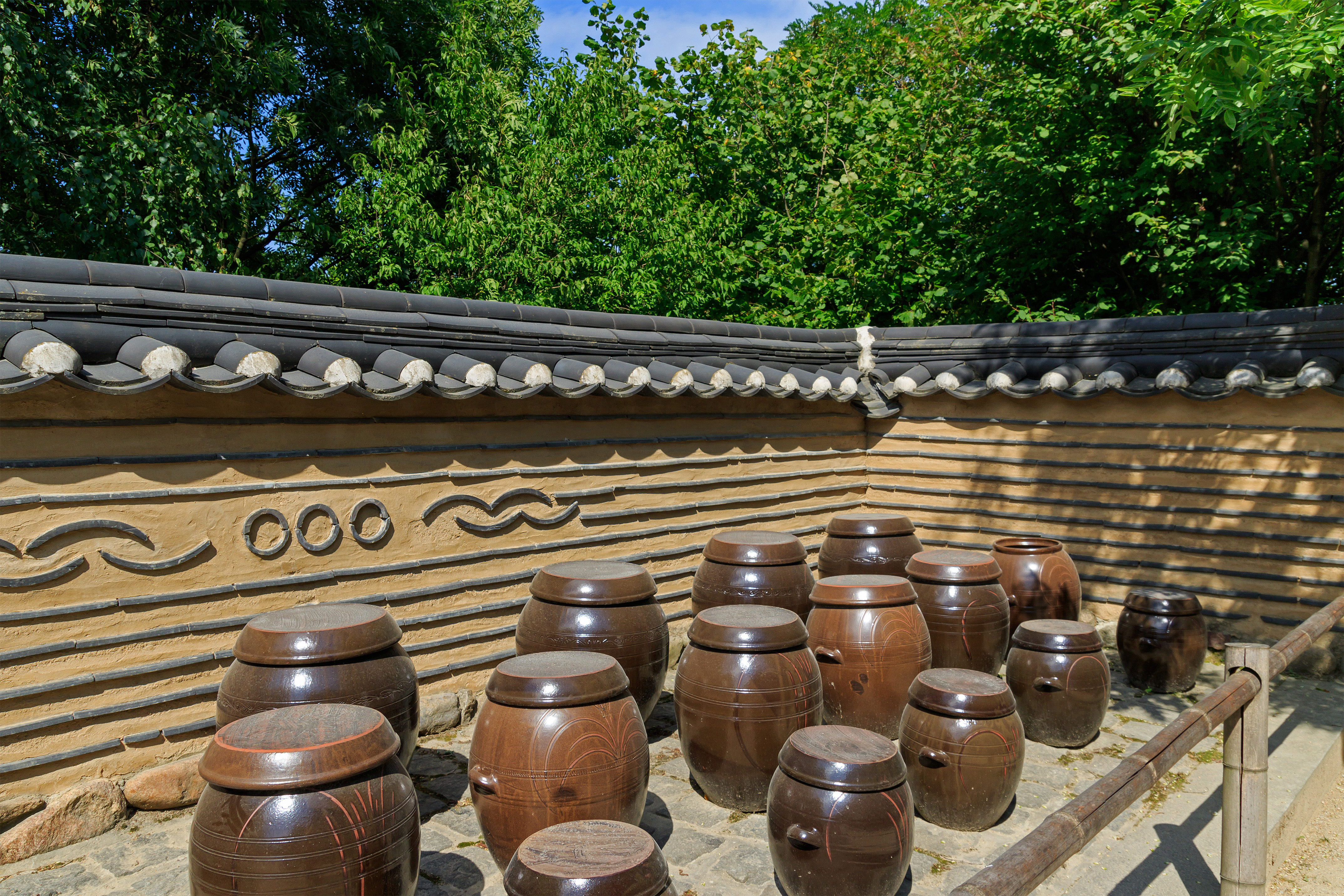 Berlin-Marzahn Gardens of the World: Korean Garden